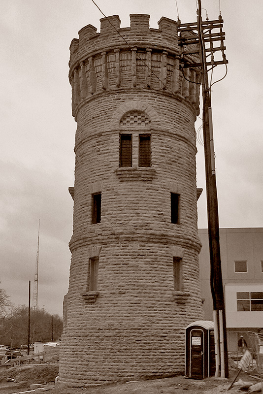 Elsinore Arch side view during remodeling.